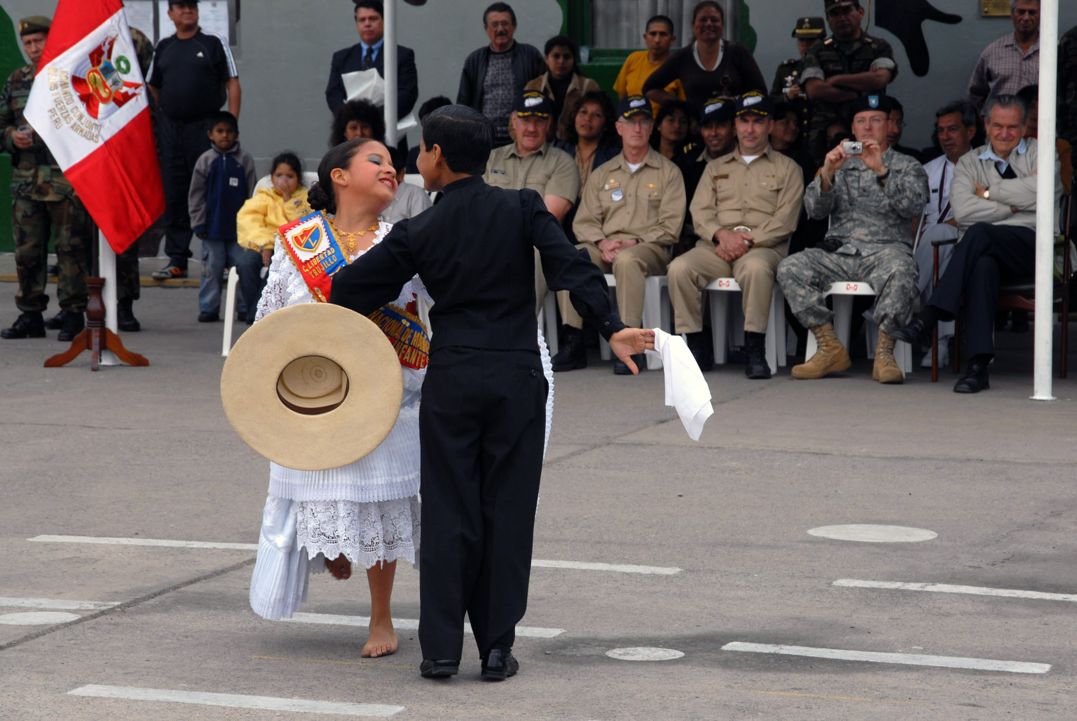 TRUJILLO, Peru (Aug. 12, 2007) - Lupita Carrion and Alvako Coello perform a dance during a closing ceremony for the Military Sealift Command (MSC) hospital ship USNS Comfort (T-AH 20) at the Ramon Zavala General Quarter of 32nd Infantry Brigade headquarters. Comfort is on a four-month humanitarian deployment to Latin America and the Caribbean providing medical treatment to patients in a dozen countries. U.S. Navy photo by Mass Communication Specialist 2nd Class Joshua Karsten (RELEASED). This is considered the most sensual dance in Peru and is the most representative of Trujillo city and one of the most typical dance from Peru.